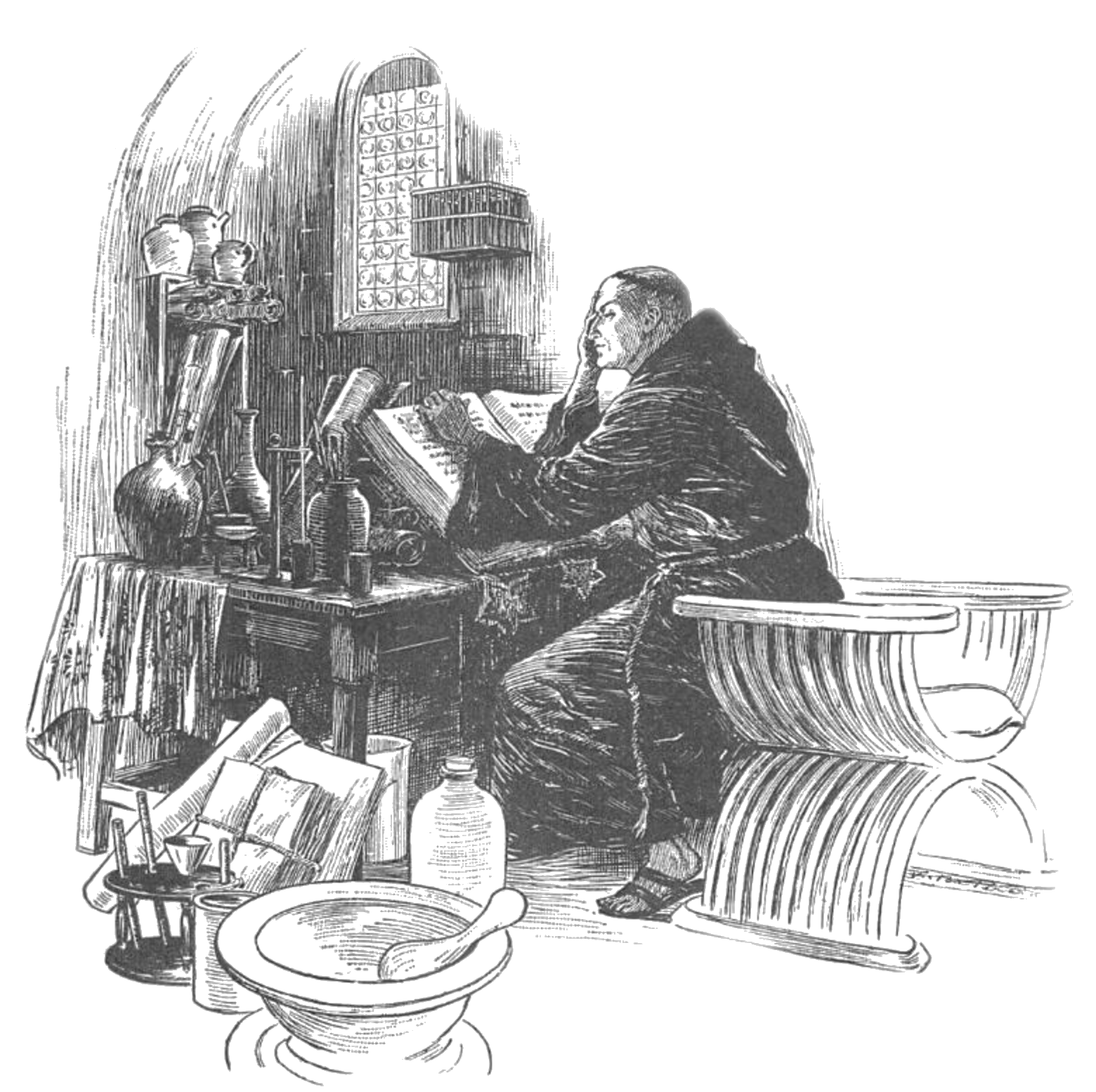 An image of Roger Bacon in his study